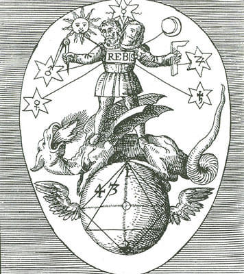 Rebis image from the work Theoria Philosophiae Hermeticae (1617)